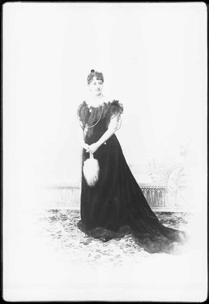 Portrait of the German singer